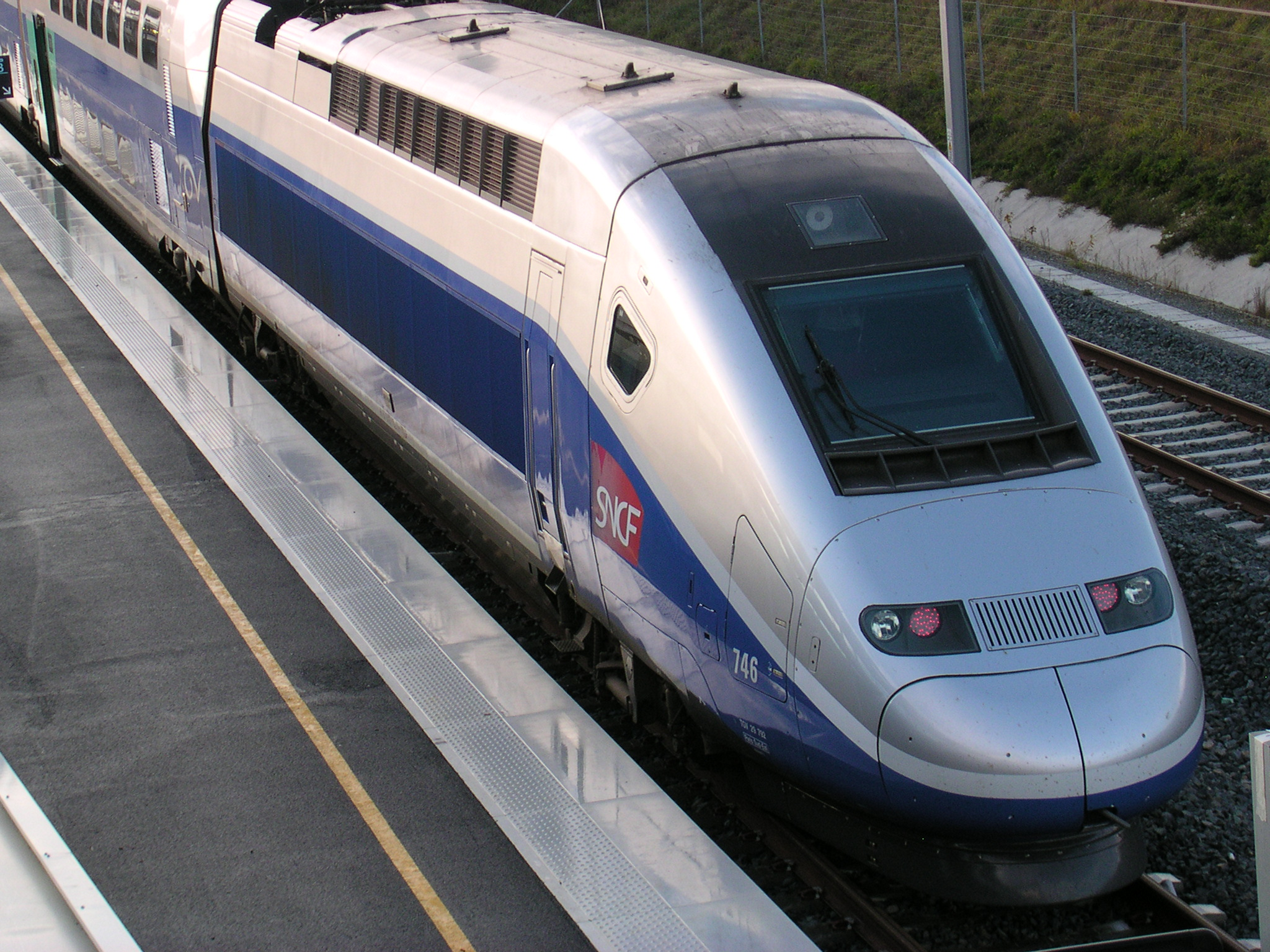 Front of the TGV Duplex Dasye number 746 train parked at the Belfort - Montbéliard TGV railway station during station's inaugural.